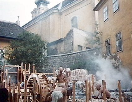 A laundry with industrial slaves in front of a church